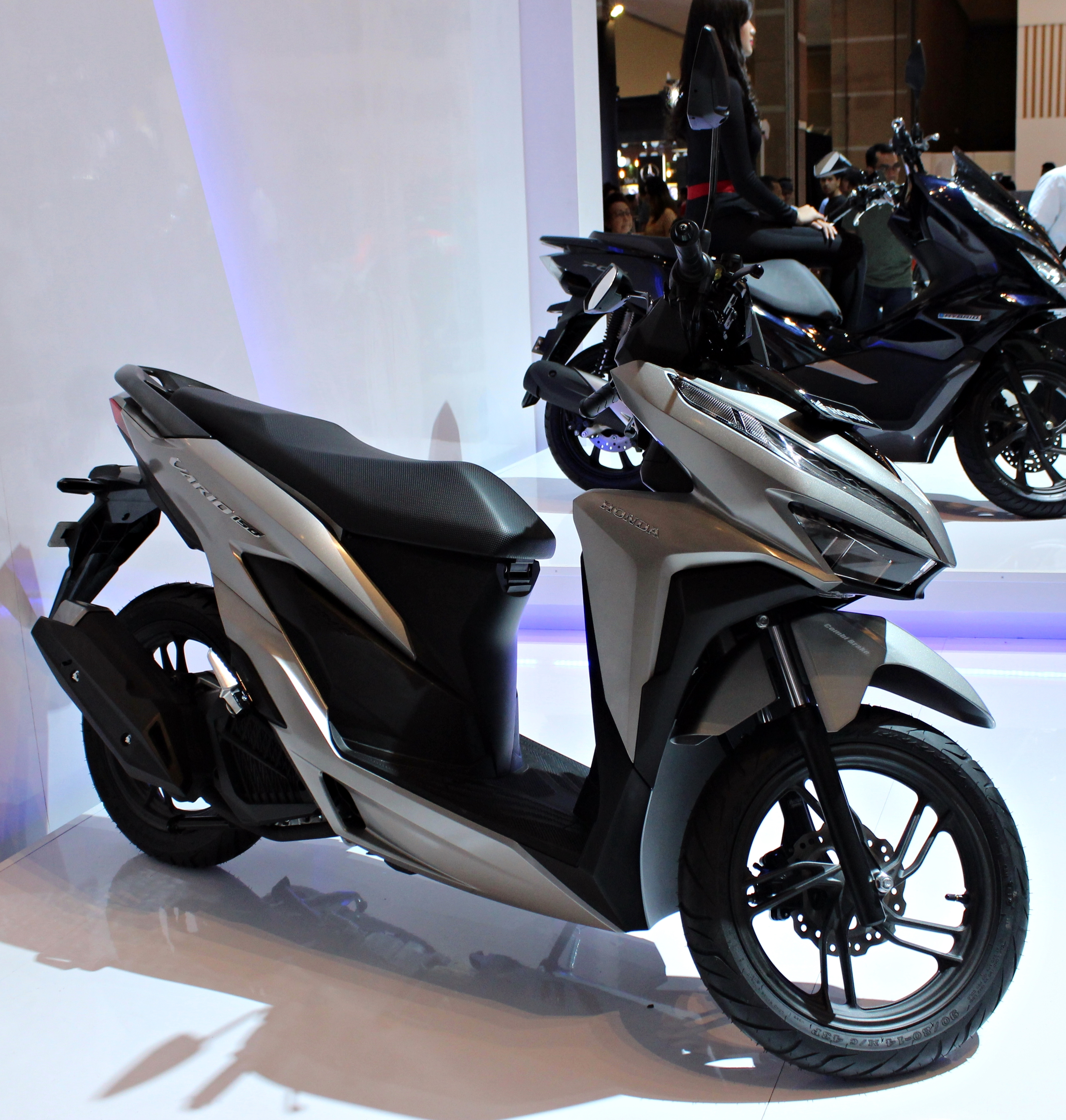 A Honda Vario 150 scooter photographed in Indonesia International Motor Show 2018, Jakarta, Indonesia on April 26, 2018.